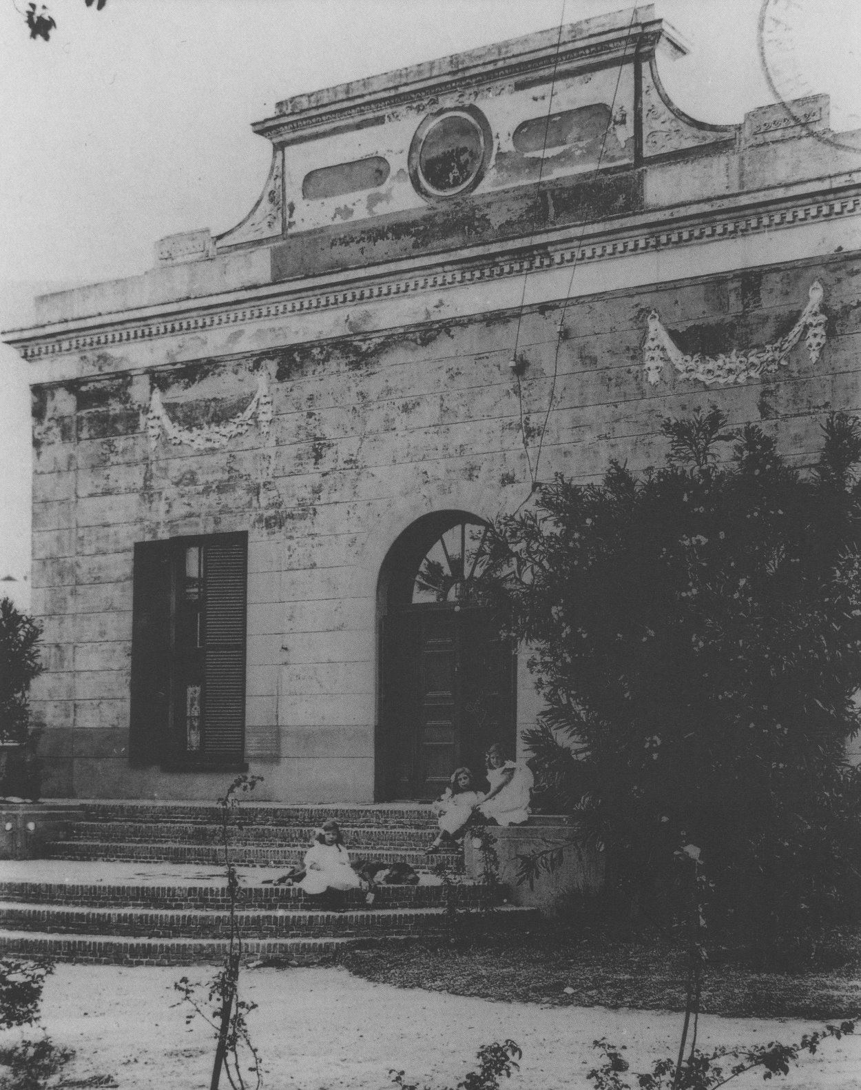 Saasveld House was built for Baron Willem Ferdinand van Oudtshoorn by Louis Michel Thibault. It was demolished in the 1950s by the Dutch Reformed Church.